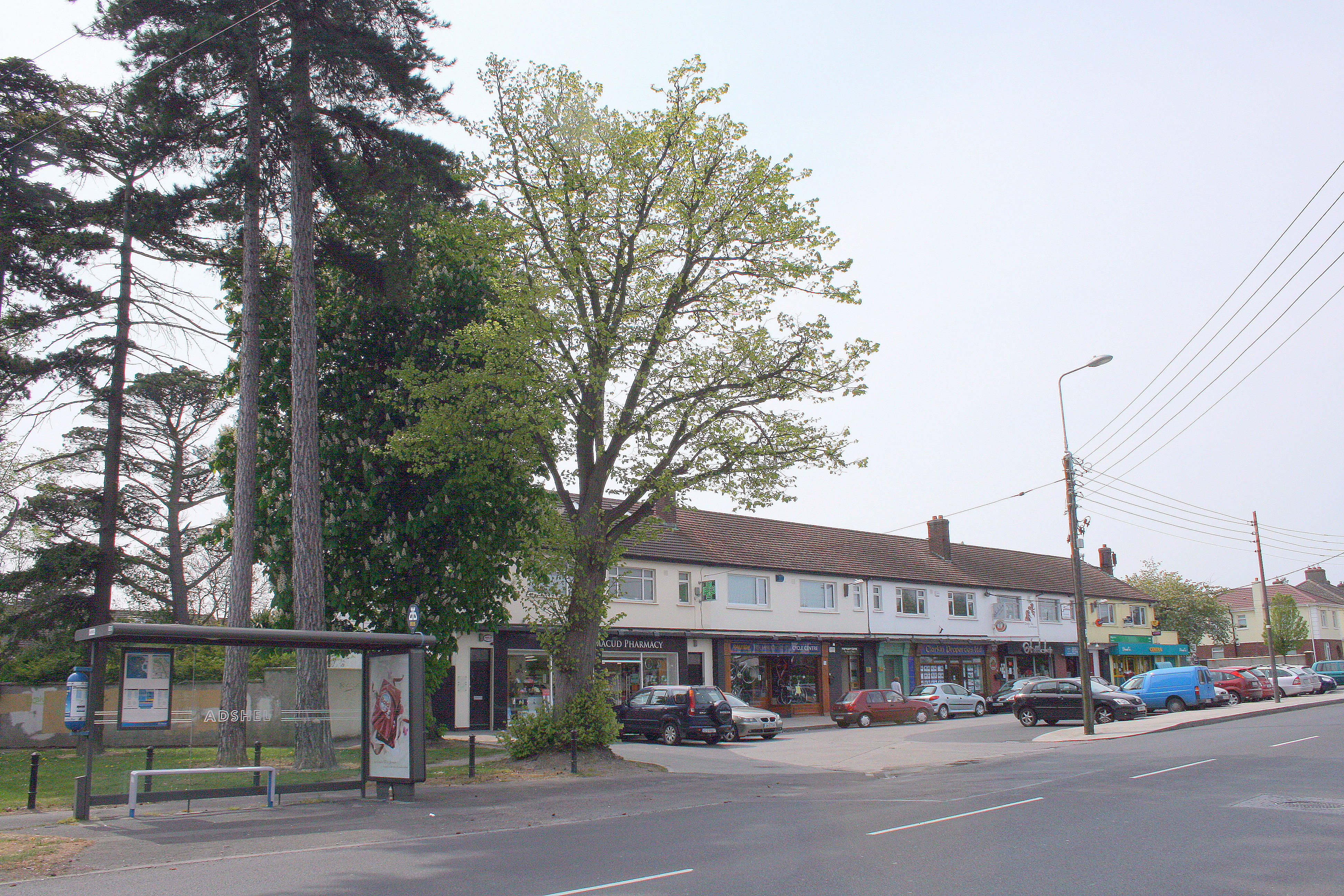 Local shops on the Lower Kilmacud Rd, part of the R825 in Dublin